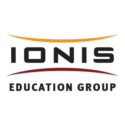 Logo IONIS Education Group